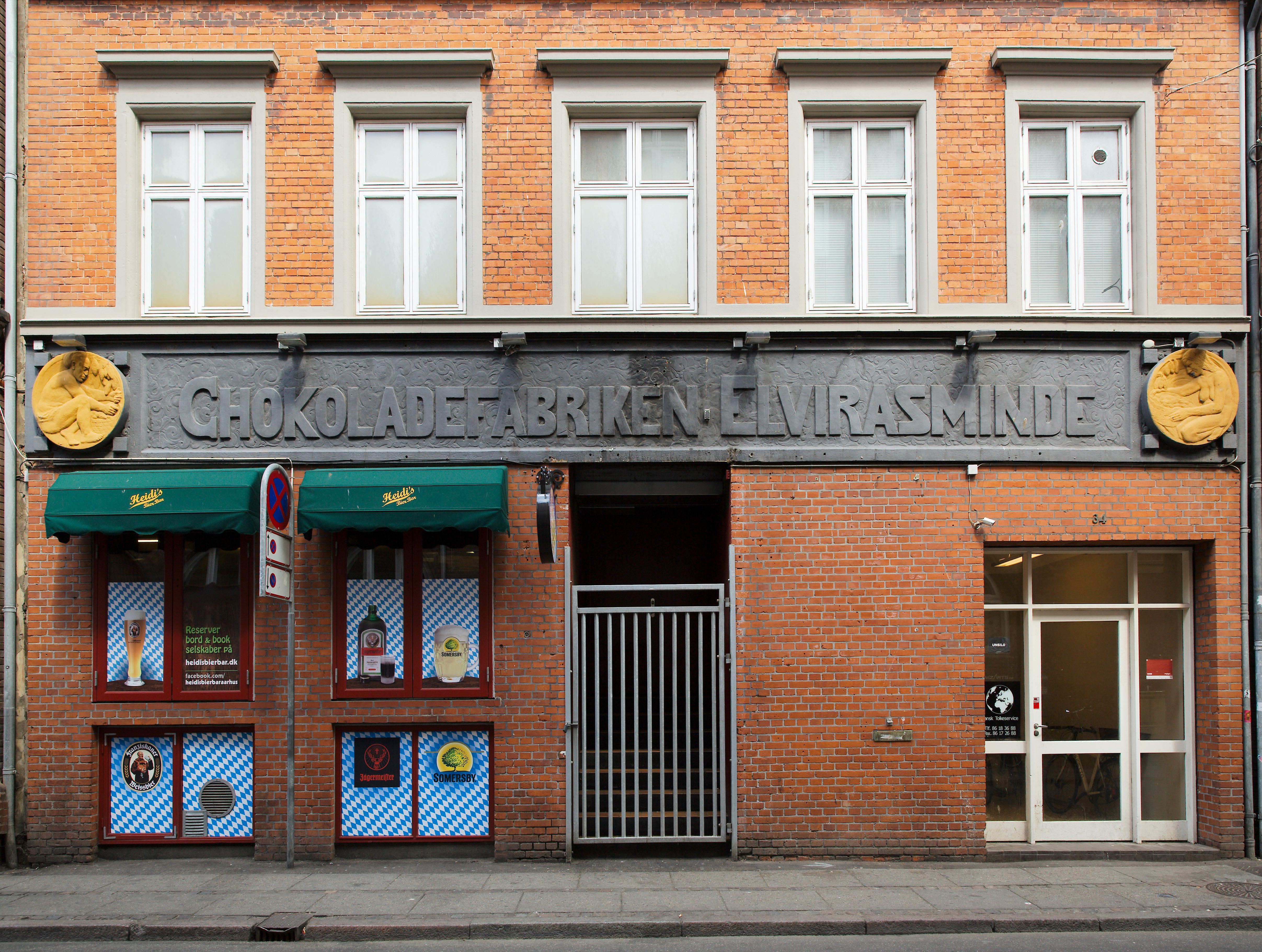 The chocolate factory Elvirasminde in Klostergade, Aarhus here was the former Jazz house Tagskægget